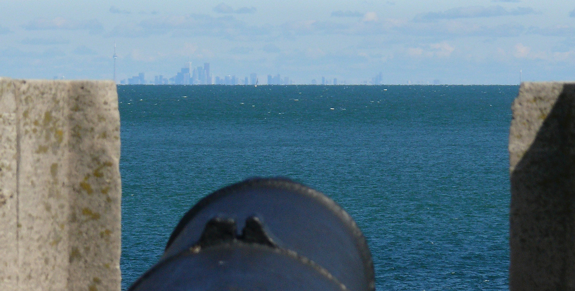 Cannon at Fort Niagara, in the background Toronto. Fort Niagara is a fortification located near Youngstown, New York, on the eastern bank of the Niagara River at its mouth, on Lake Ontario.